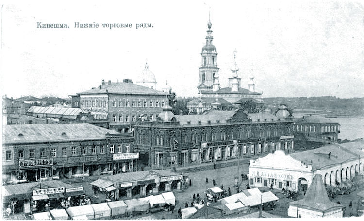 View of Kineshma before the Russian Revolution.